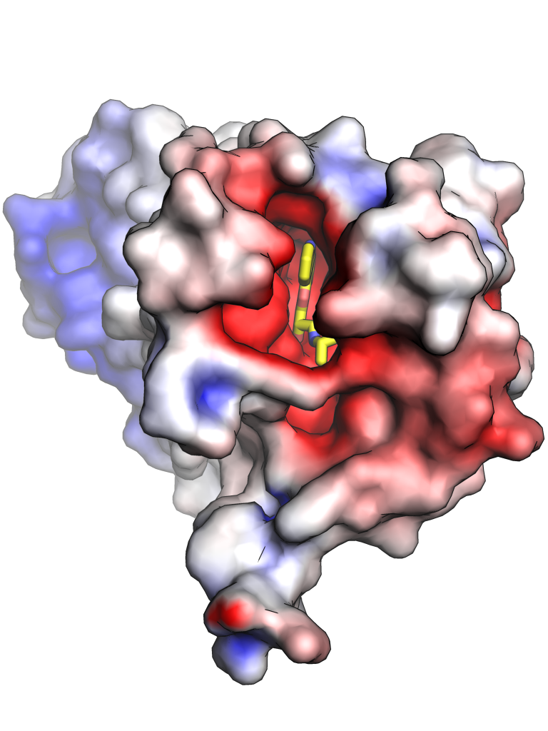 The human beta-2 adrenergic receptor, a G protein-coupled receptor, shown looking down on the extracellular surface. The electrostatic surface of the protein (calculated using APBS) is shown with regions of negative charge in red and regions of positive charge in blue. The partial inverse agonist carazolol is shown as gray sticks. Rendered using PyMol from PDB ID 2RH1.